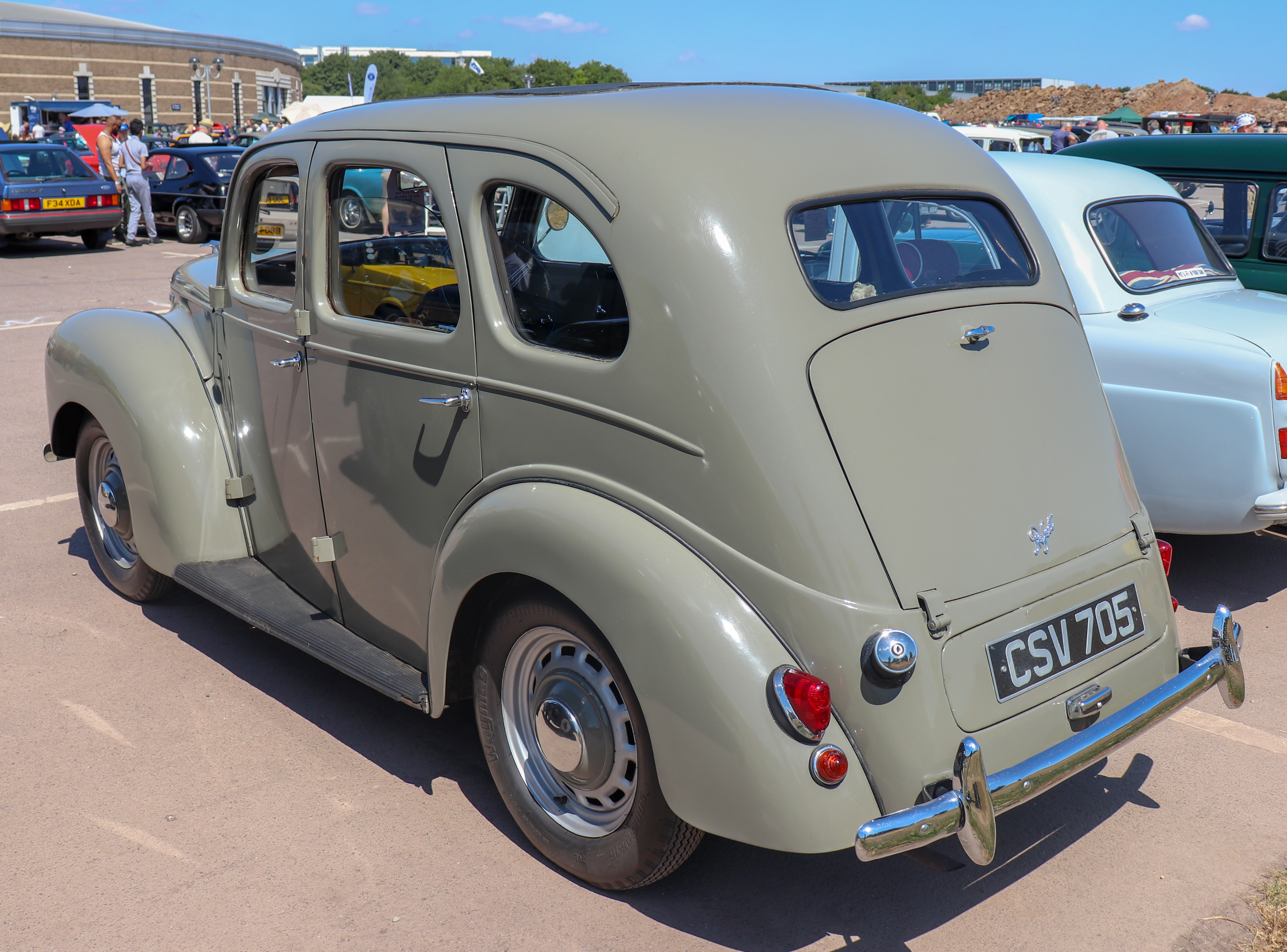 1953 Ford Prefect E493A 1.2 Rear Taken at the British Motor Museum Old Ford Rally 2018, Gaydon